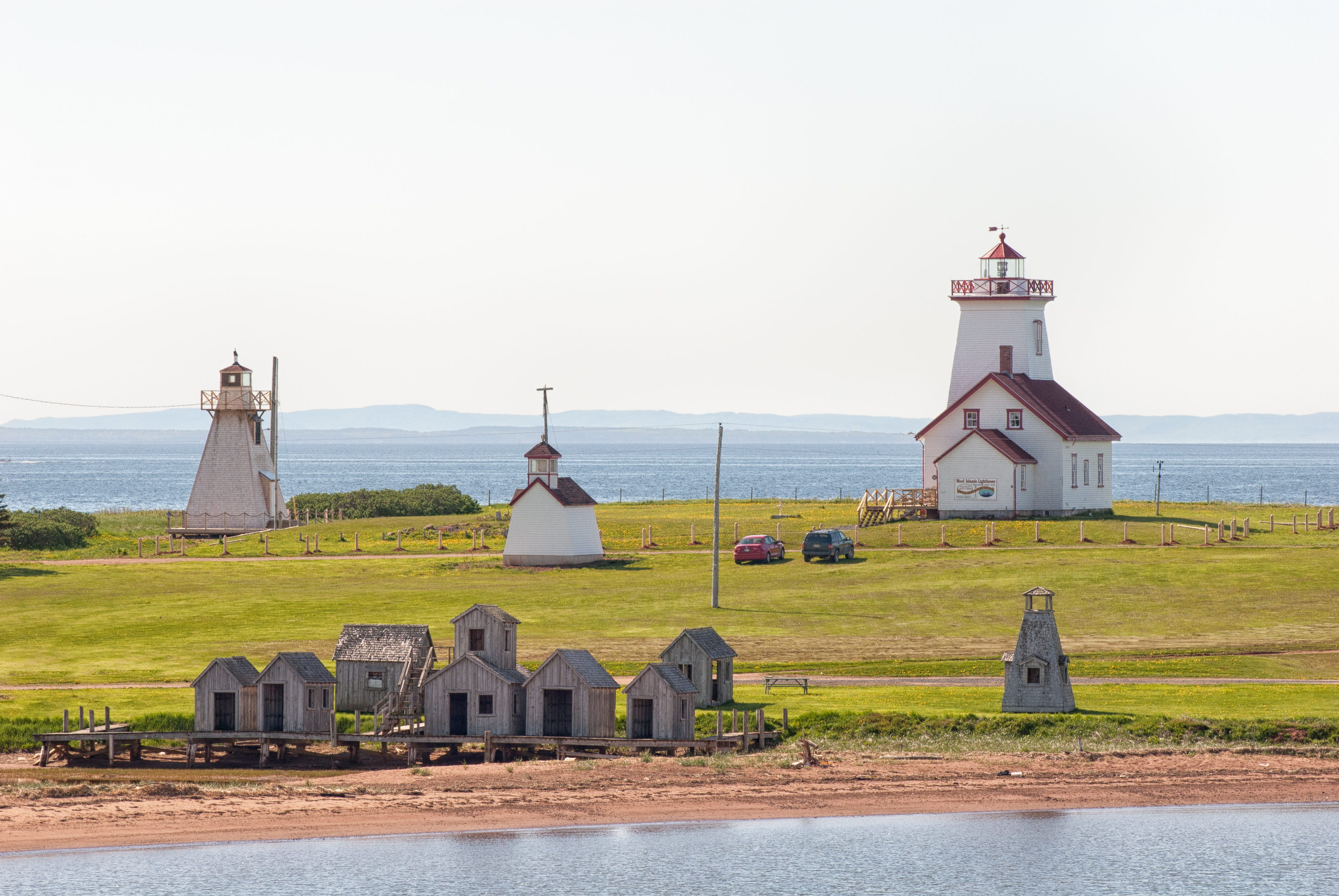 Tower and Fog Alarm at Wood Islands, 2014